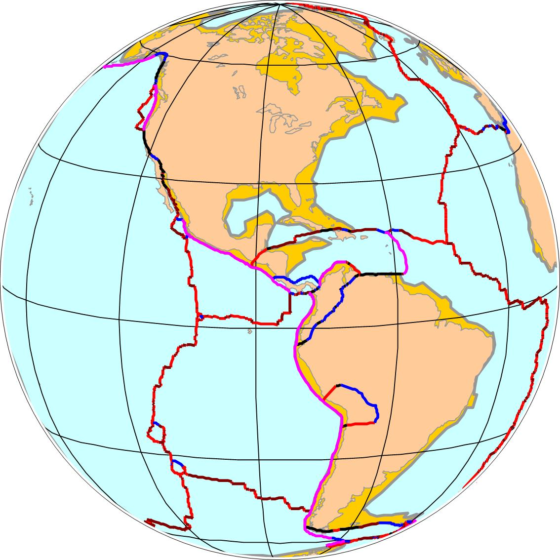 Coco- and CaraIbean- tectonic plate. Orthogonal projection (as seen from deep space).